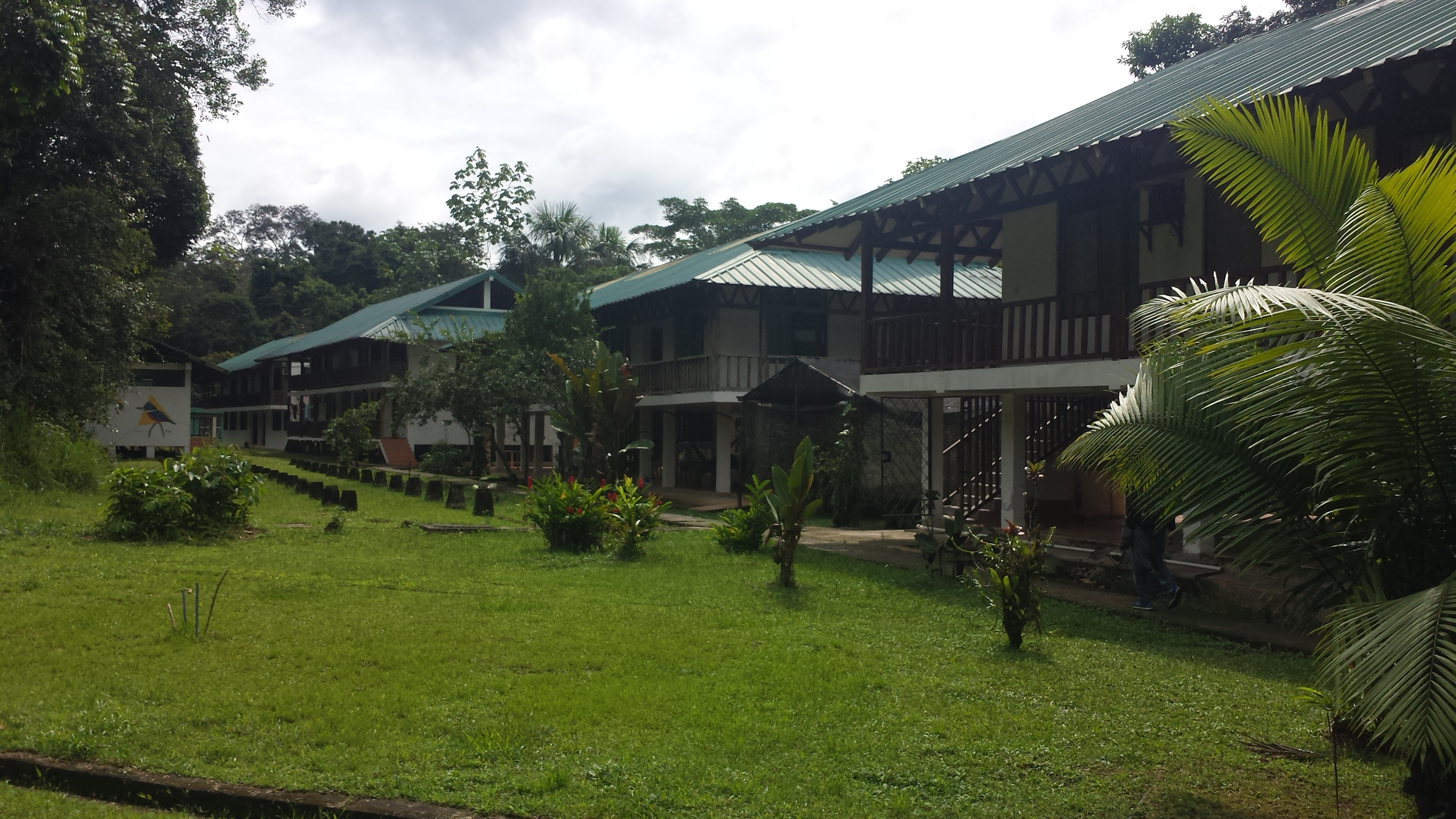 This is an image of the Yasuni Research Station on the Tiputini River, within the heart of Yasuni National Park. Shown are buildings equipped with dorms for researchers staying for an extended period of time as getting to the station is no easy feat. All rooms are equipped with a bed, air conditioning, shower, and lodging comes with three meals a day at a very reasonable price.